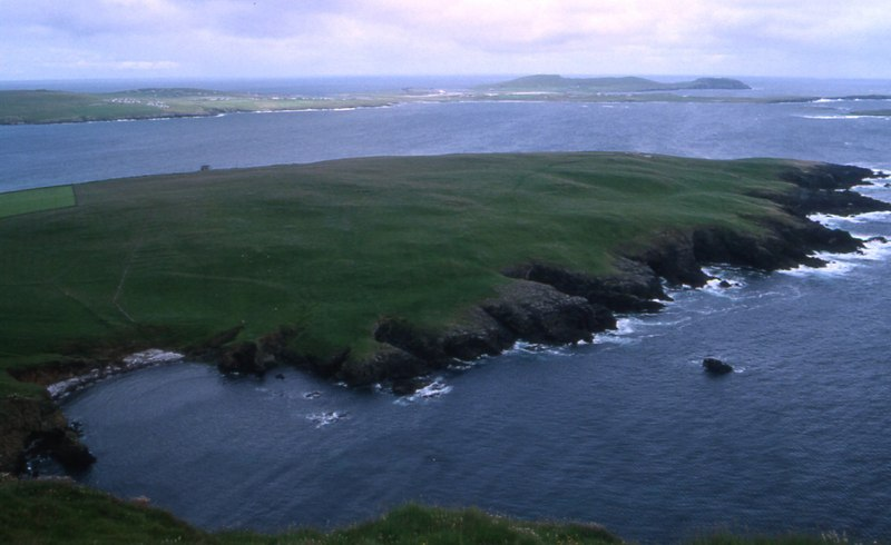 Garths Ness The remains of the MV Braer can be seen on the right.